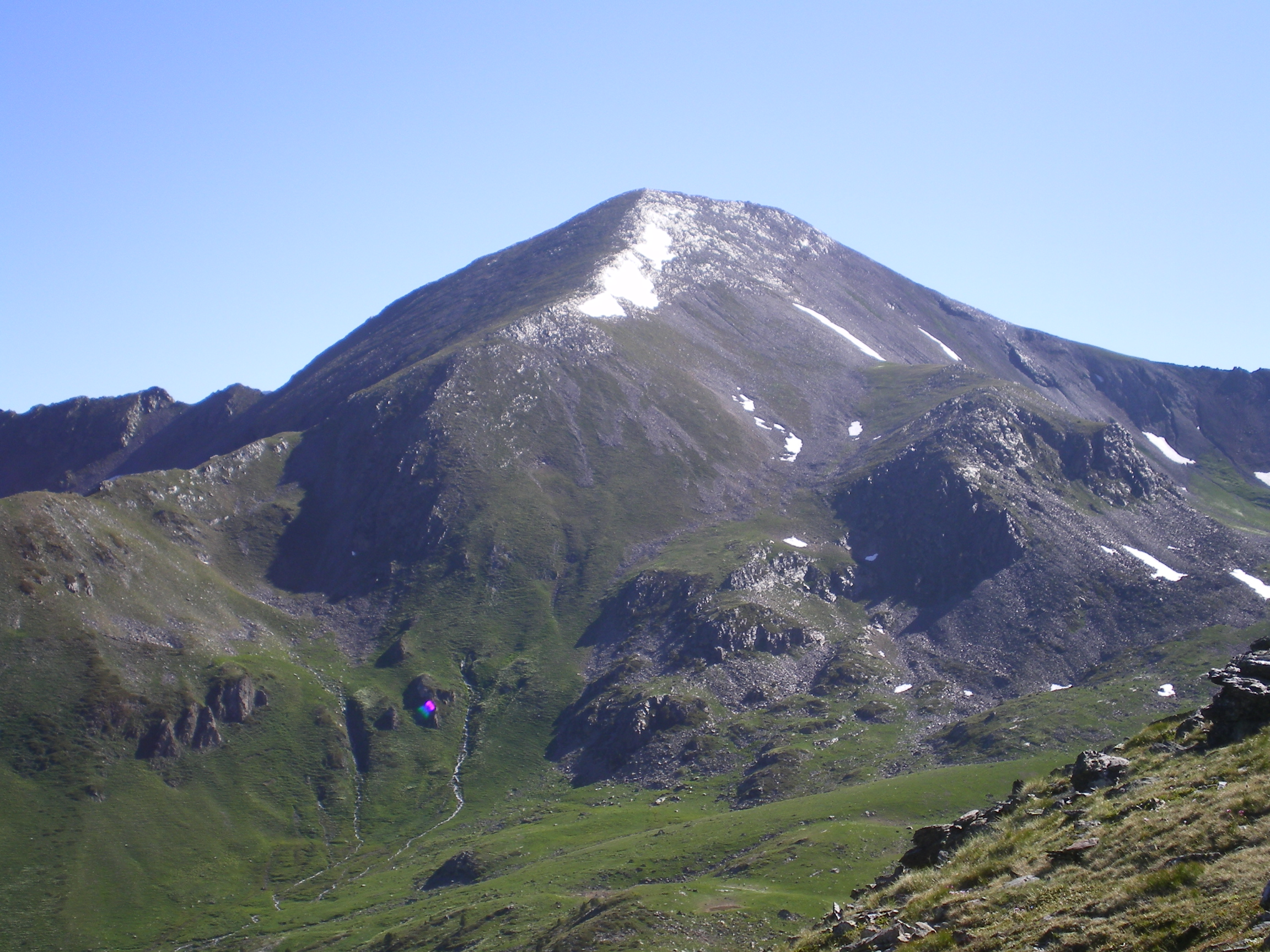 Pic de la Serrera. Andorra